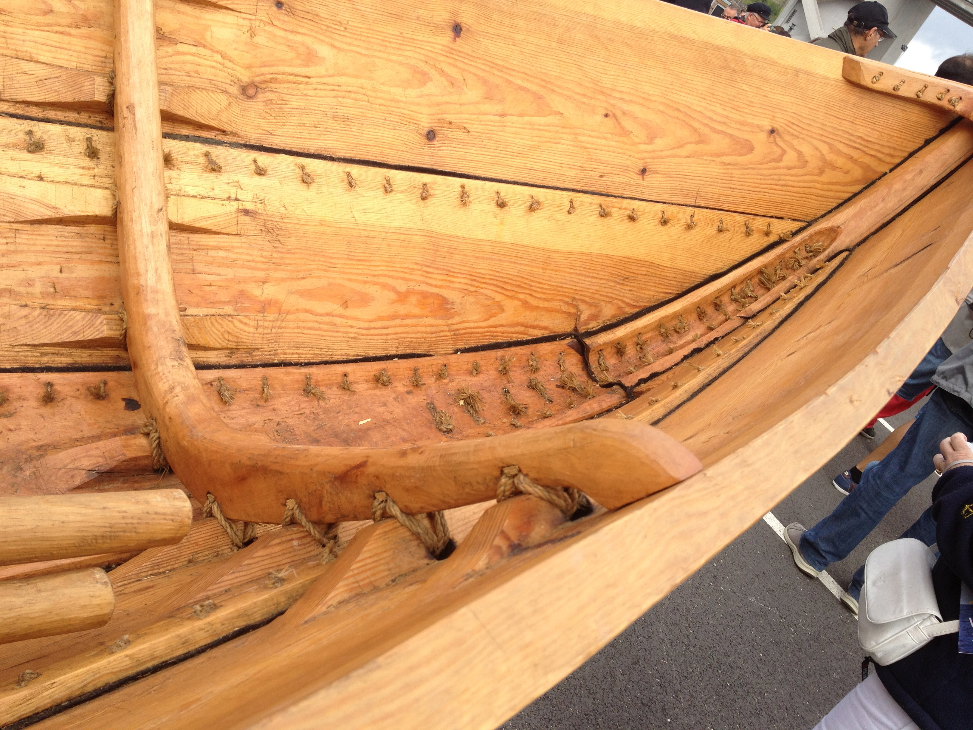 Detail of the bow, photo taken at Brest 2012